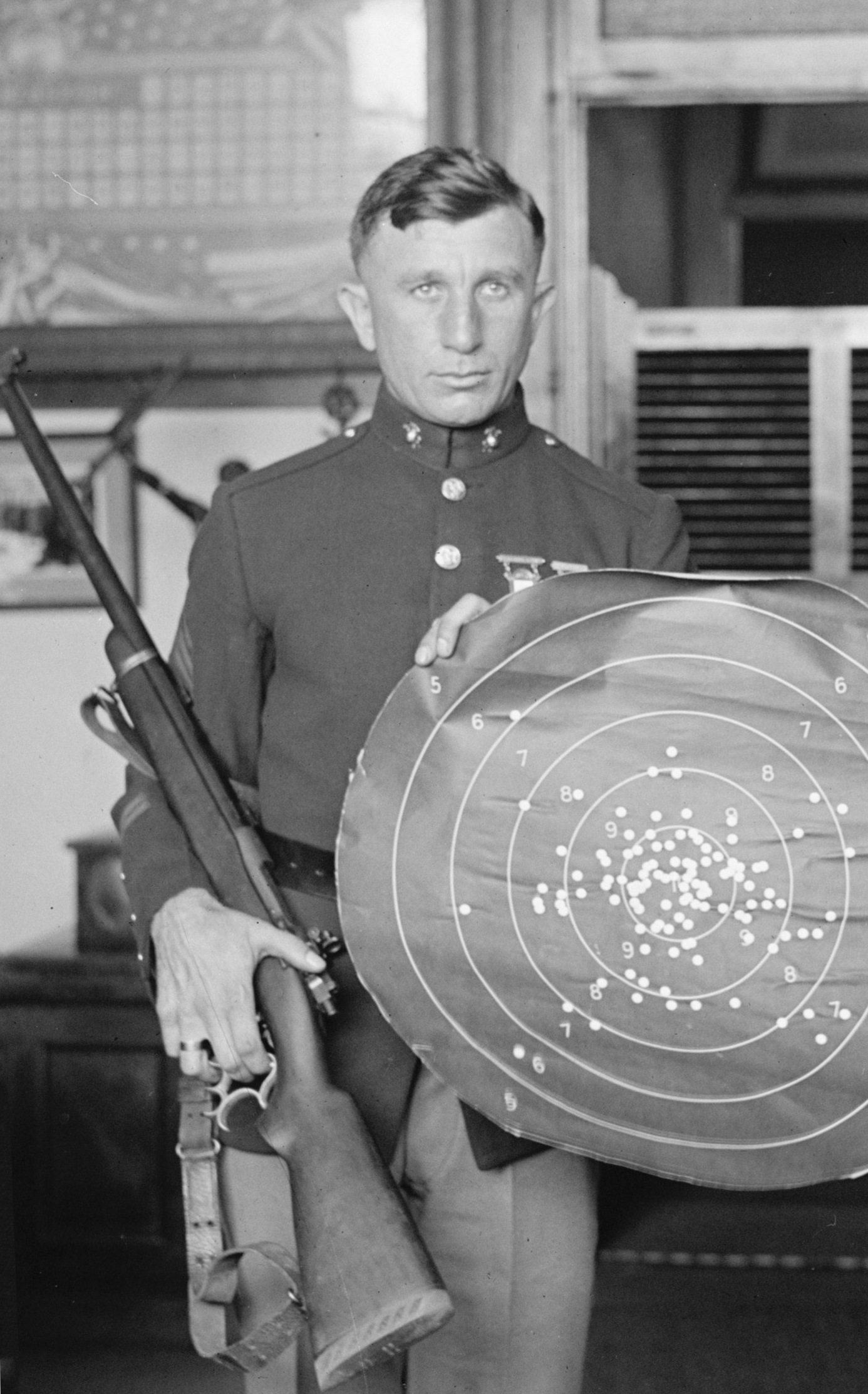 Sgt. Morris Fisher holding a 300 meter target and his target rifle. September 27, 1923